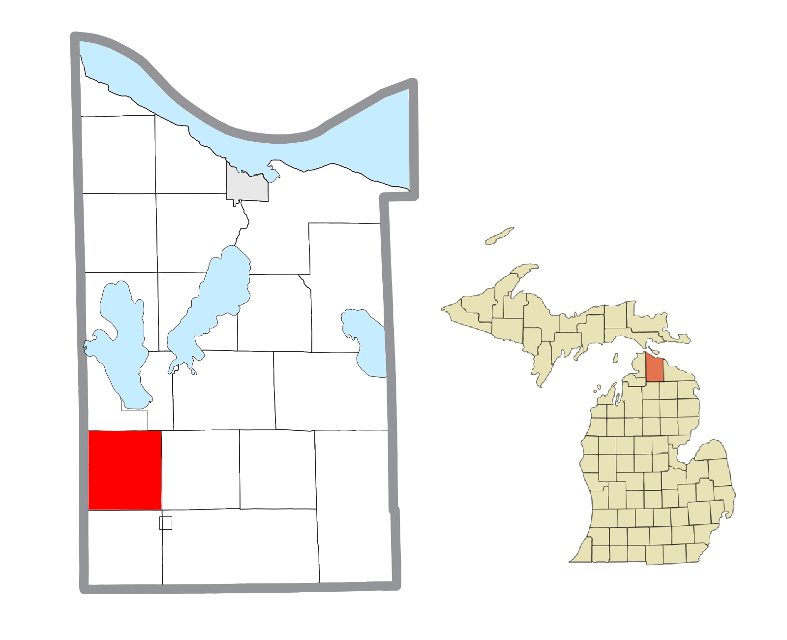 Mentor Township, MI